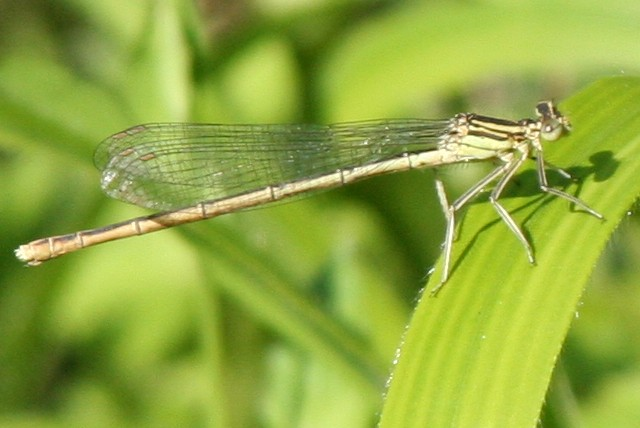 Female Platycnemis pennipes damselfly photographed in Weinsberg